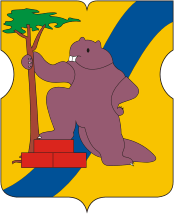 Khoroshevo-Mnevniki (municipality in Moscow), coat of arms